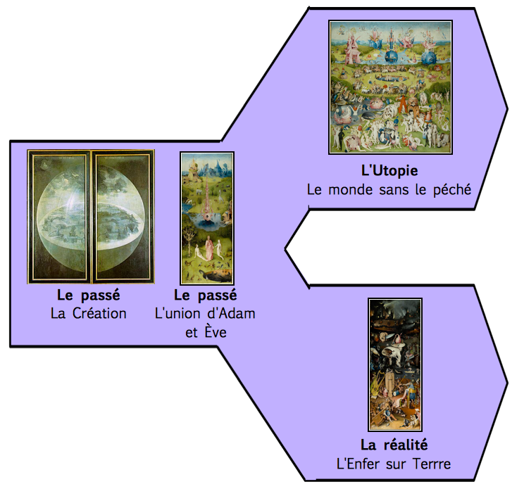 Interpretation of The Garden of Earthly Delights by Jean Wirth